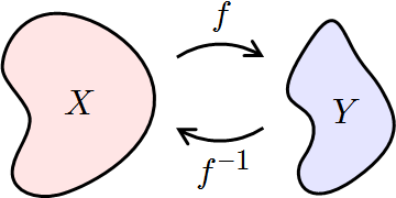 If f: X → Y, then f–1: Y → X.